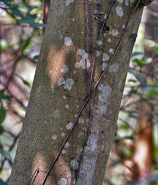 Pigeon Wood Trema orientalis. Kolkata, West Bengal, India